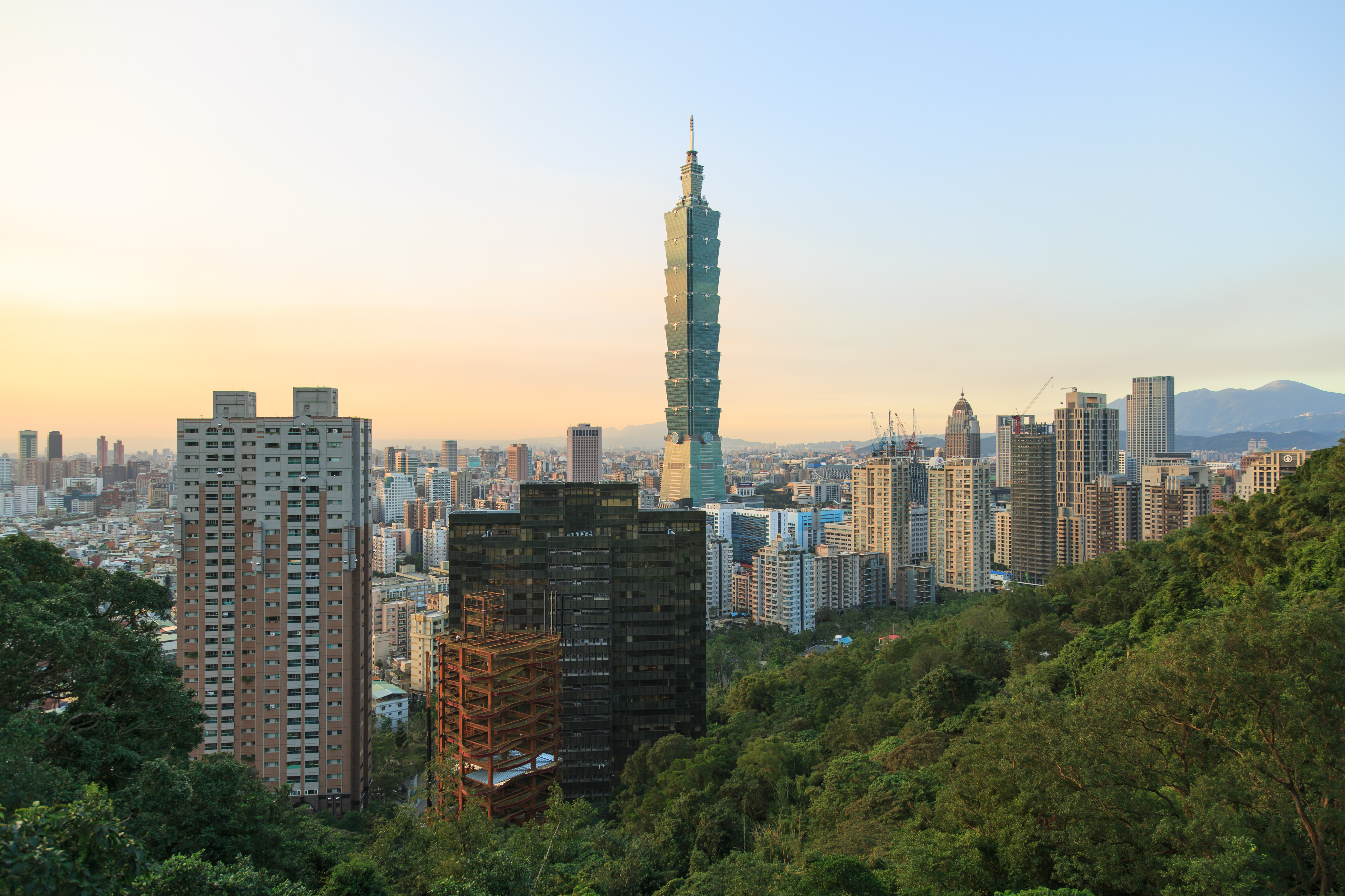 Taipei, Taiwan: Taipei 101 tower at sunset